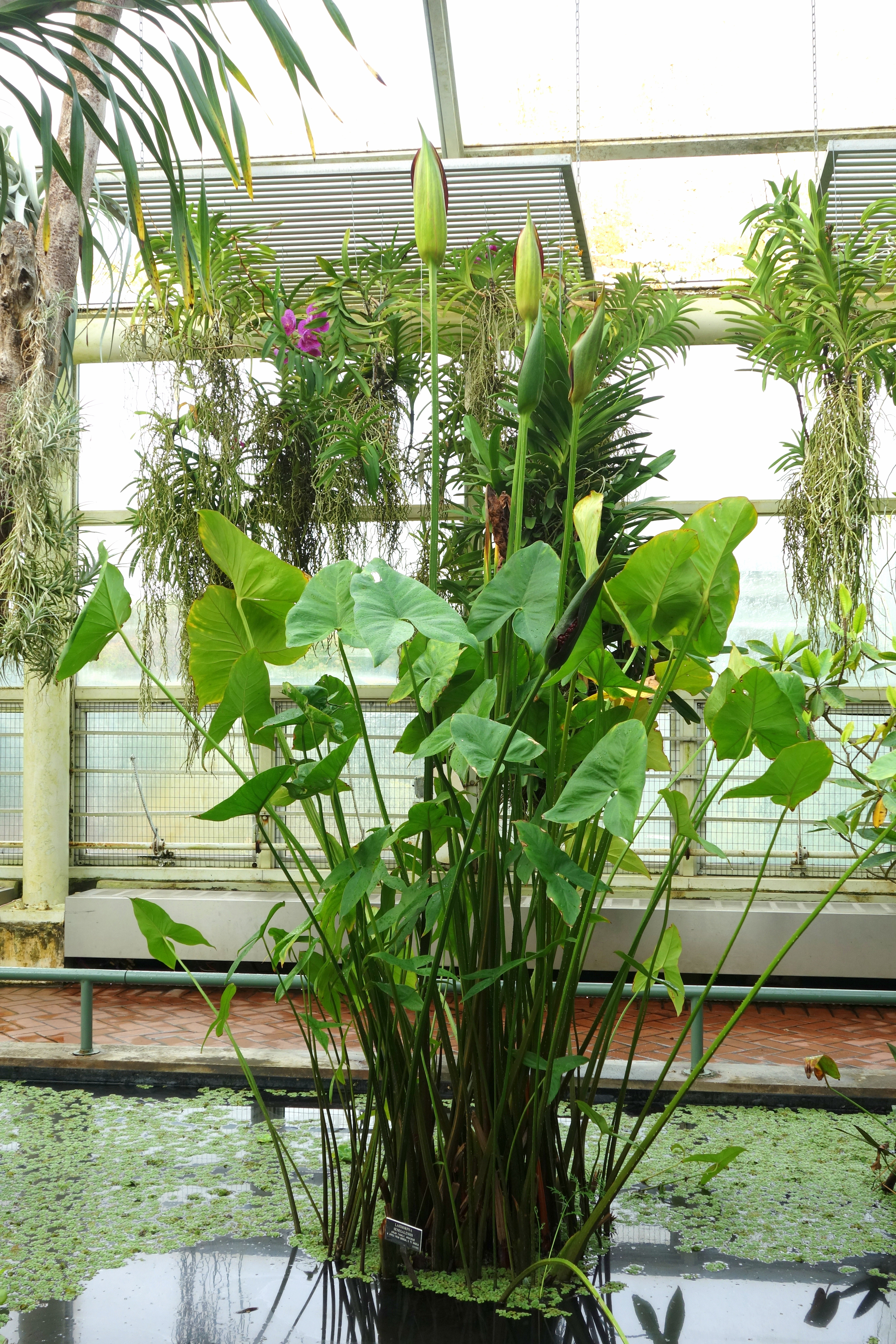 Botanical specimen in the Brooklyn Botanic Garden, Brooklyn, New York, USA.